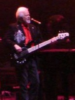 The Osmonds play their 50th Anniversary Tour at the National Indoor Arena in Birmingham, England on May 26, 2008. This is a cropped version of the picture originally posted at File:The-Osmonds-May-2008.jpg.